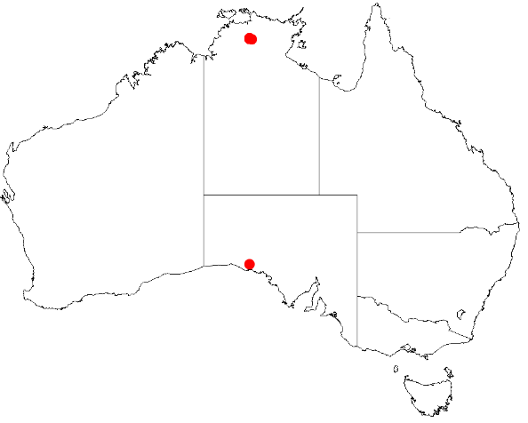 Acacia amanda Occurrence data from Australasia Virtual Herbarium downloaded from on 8 December 2018